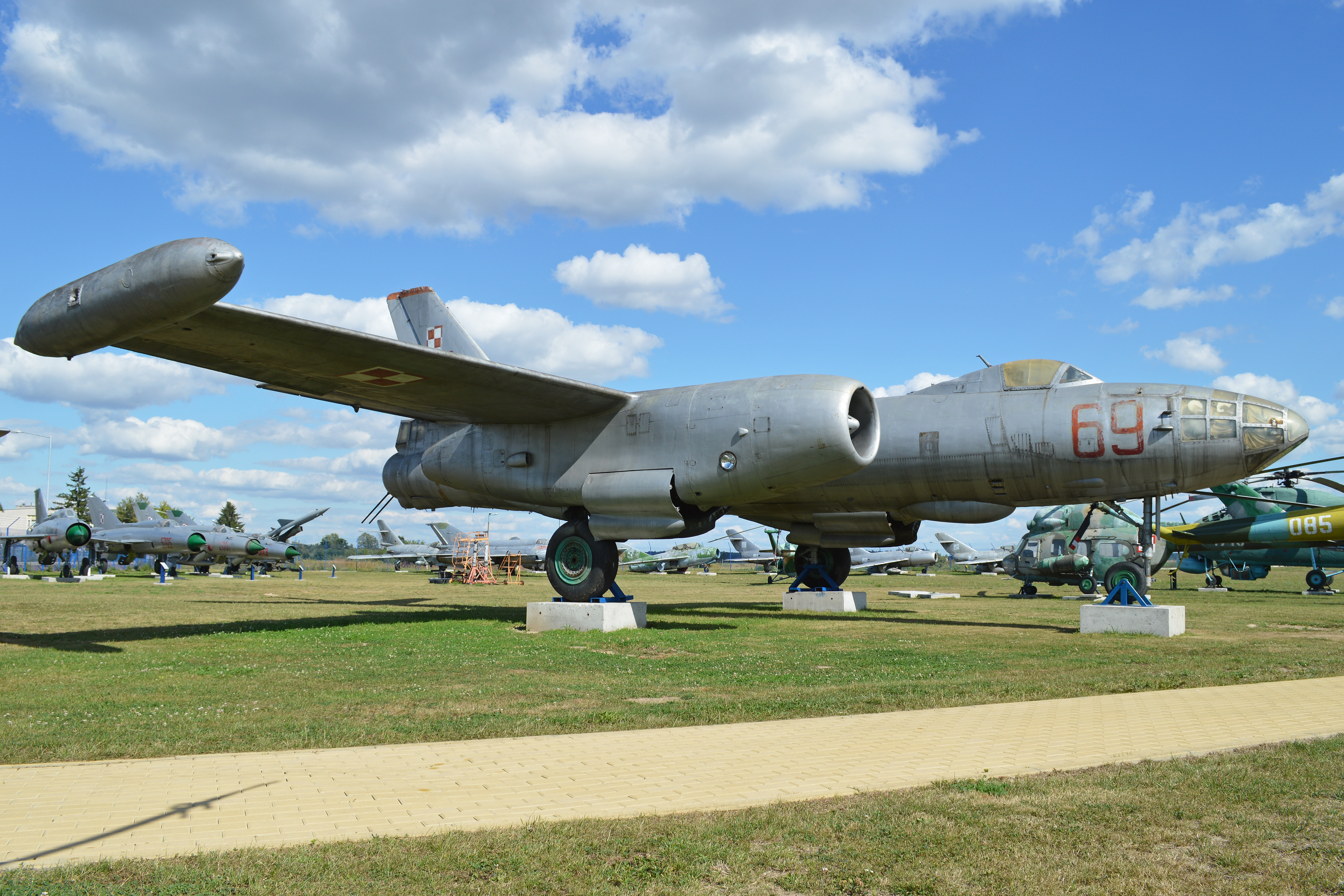 This is the 3-seat reconnaissance version of the 'Beagle', with extra fuel capacity in the bomb bay and tip tanks. Due to the extra weight it also had strengthened undercarriage. This is a Polish Navy example which was previously on display at Gydnia. c/n 41302. On display at the Muzeum Sit Powietrznych. Deblin, Poland. 25-8-2013